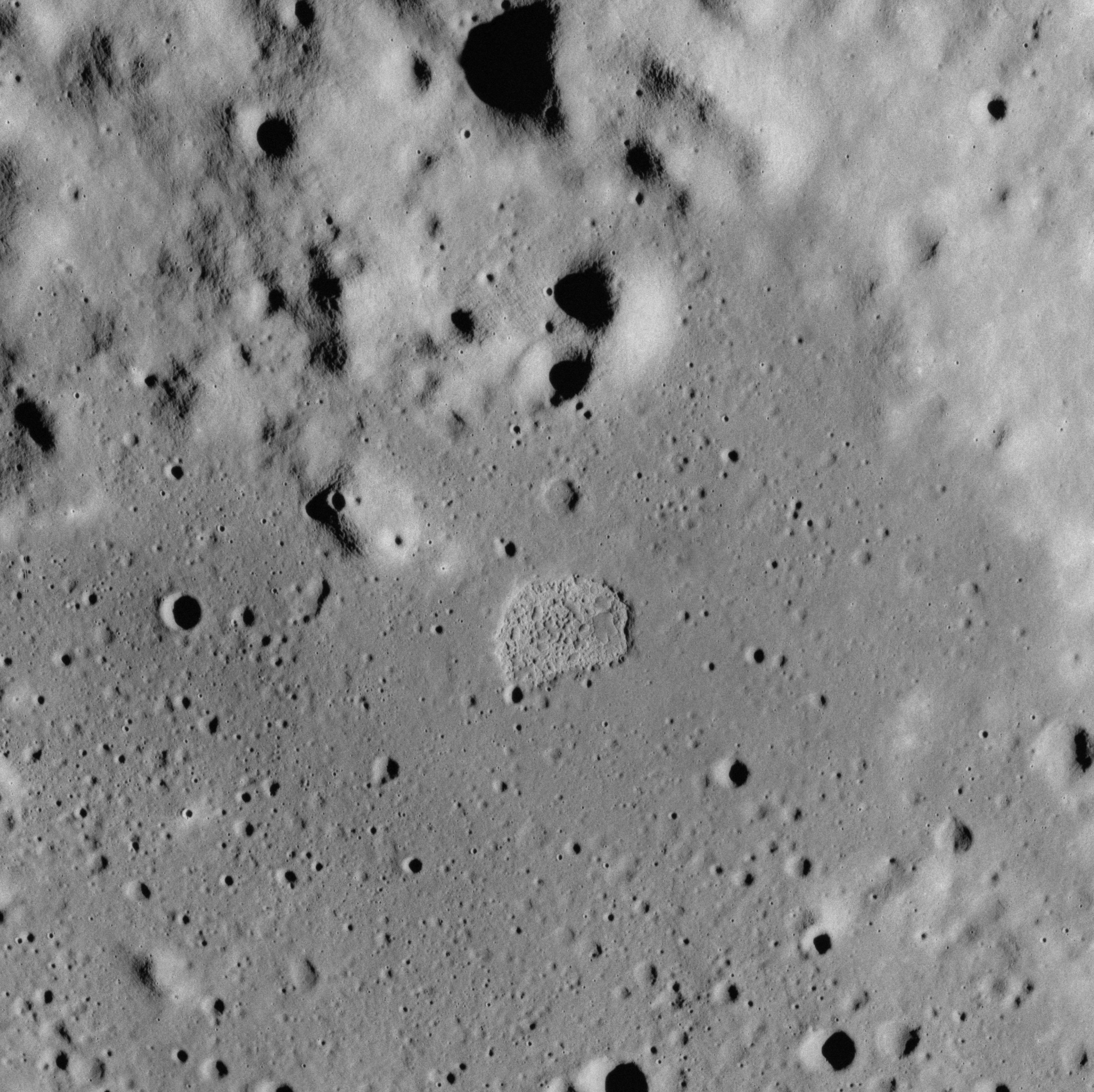 The unique lunar feature Ina (center), within Lacus Felicitatis, on the moon. The feature was often called the 'D-Caldera' prior to formal naming in 1979. This is Figure 232 of Apollo Over the Moon (NASA SP-362, 1978), which has the following caption: The steep-walled but shallow D-shaped depression near the center of the photograph is apparently a unique feature. It is located in a patch of mare on the foothills of the Montes Haemus, west of Mare Serenitatis. Measured along its straight side, the depression is about 3 km wide. It is situated atop a very gentle circular dome that appears to be somewhat smoother than the surrounding mare surface. As is more clearly shown in the accompanying stereogram (fig. 233), the many bulbous structures on the floor give it a blisterlike appearance.The depression is believed to be volcanic, probably a caldera (El-Baz, 1973b). Figure 234 explains the probable sequence of events leading to the formation of this unusual structure.-F.E.-B.